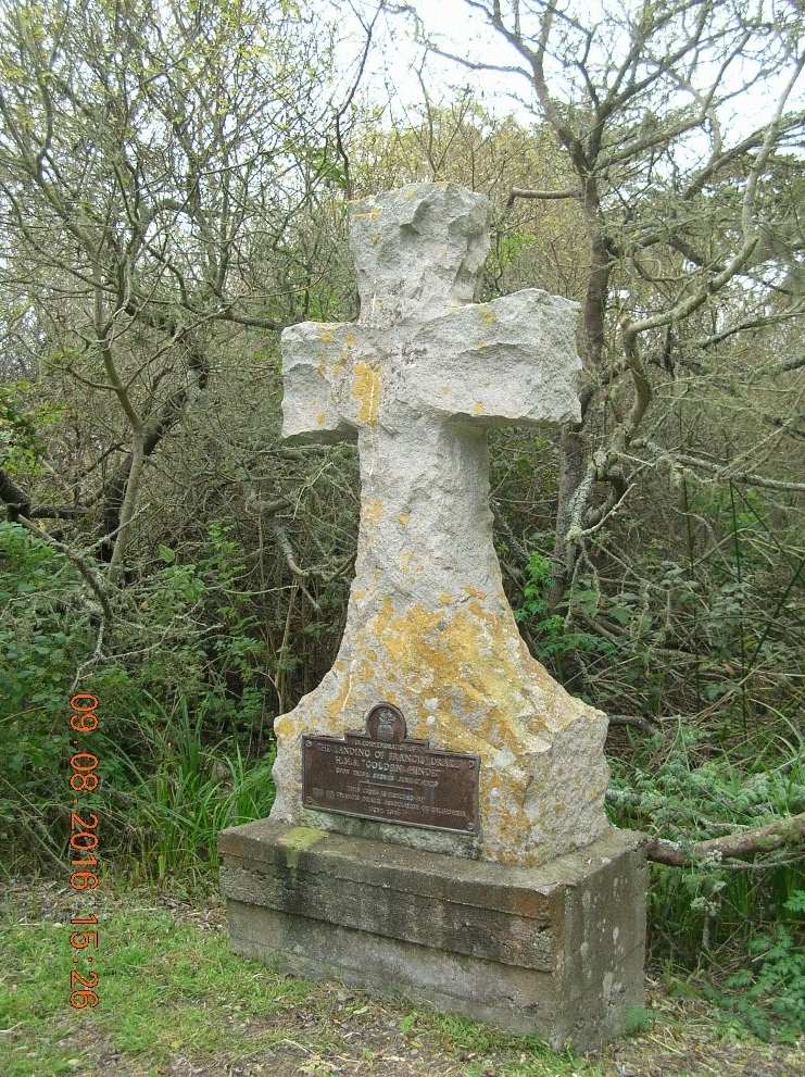 Stone cross with plaques.